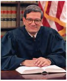 Press release photo of Judge Jose A. Cabranes from American Bar Association: images/josecabranes2.jpg